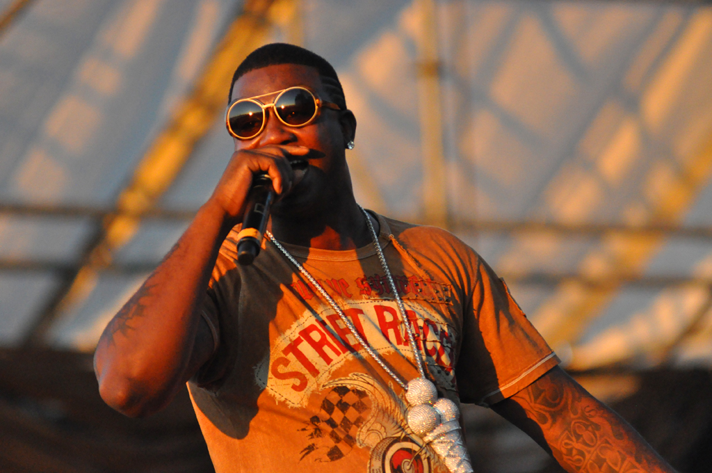 Gucci Mane at the Williamsburg Waterfront, Williamsburg, Brooklyn, August 29, 2010